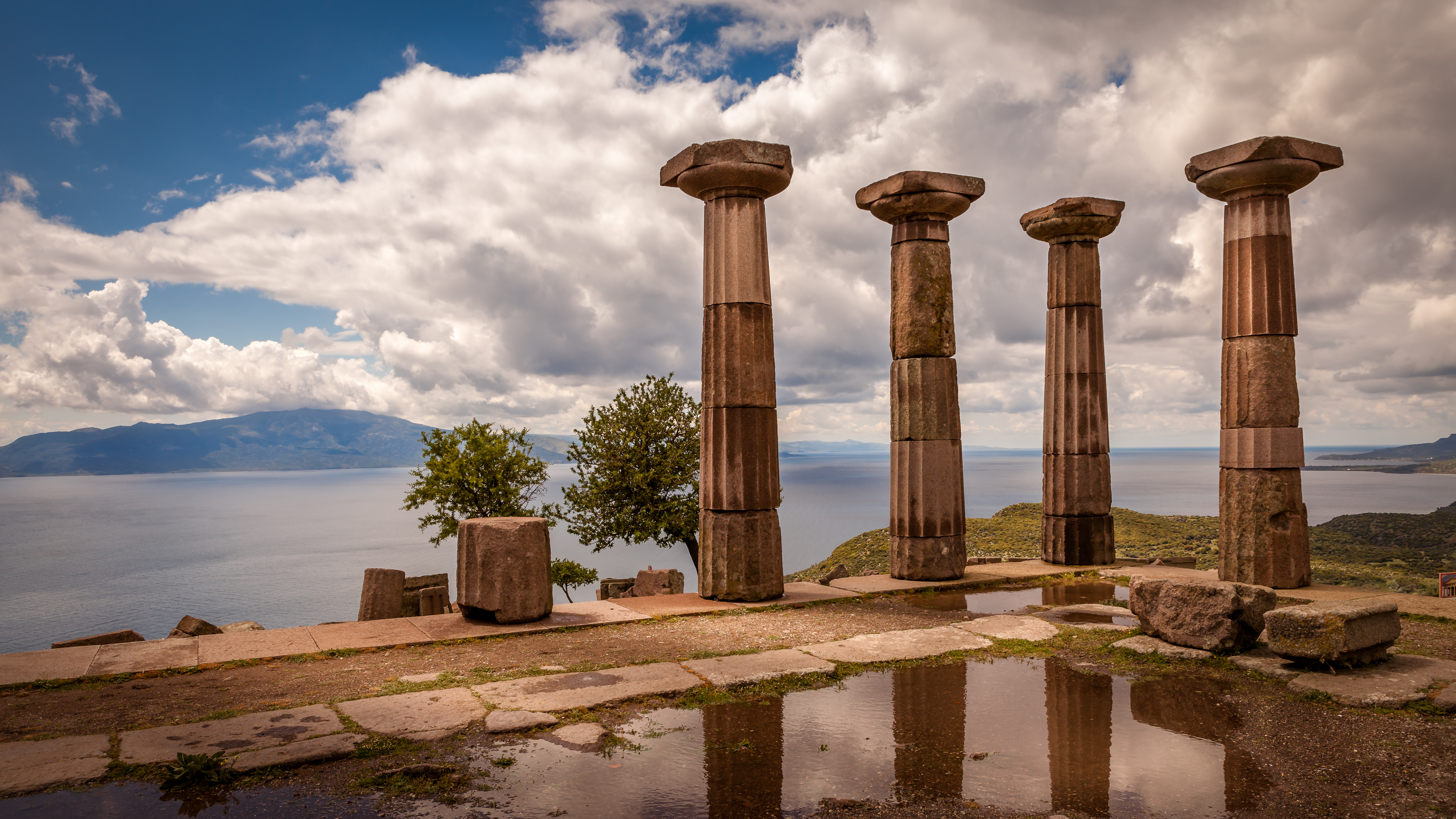 Ruins of the Temple of Athena, Assos, Turkey